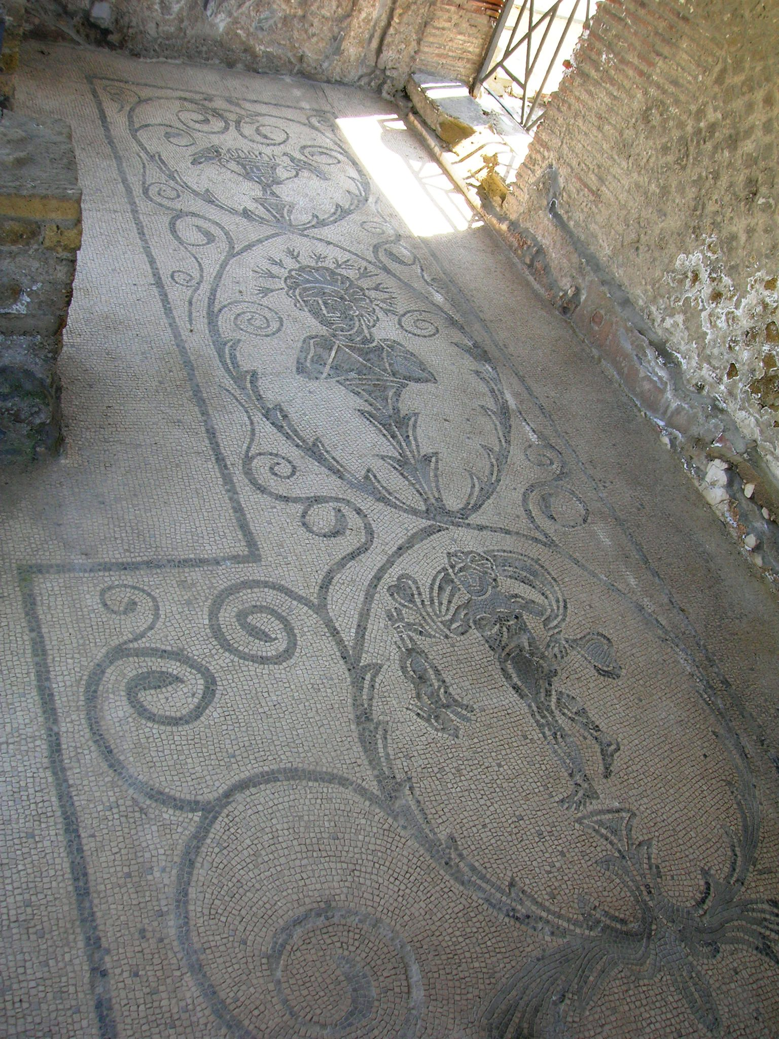 Sector of Venus (Baiae).